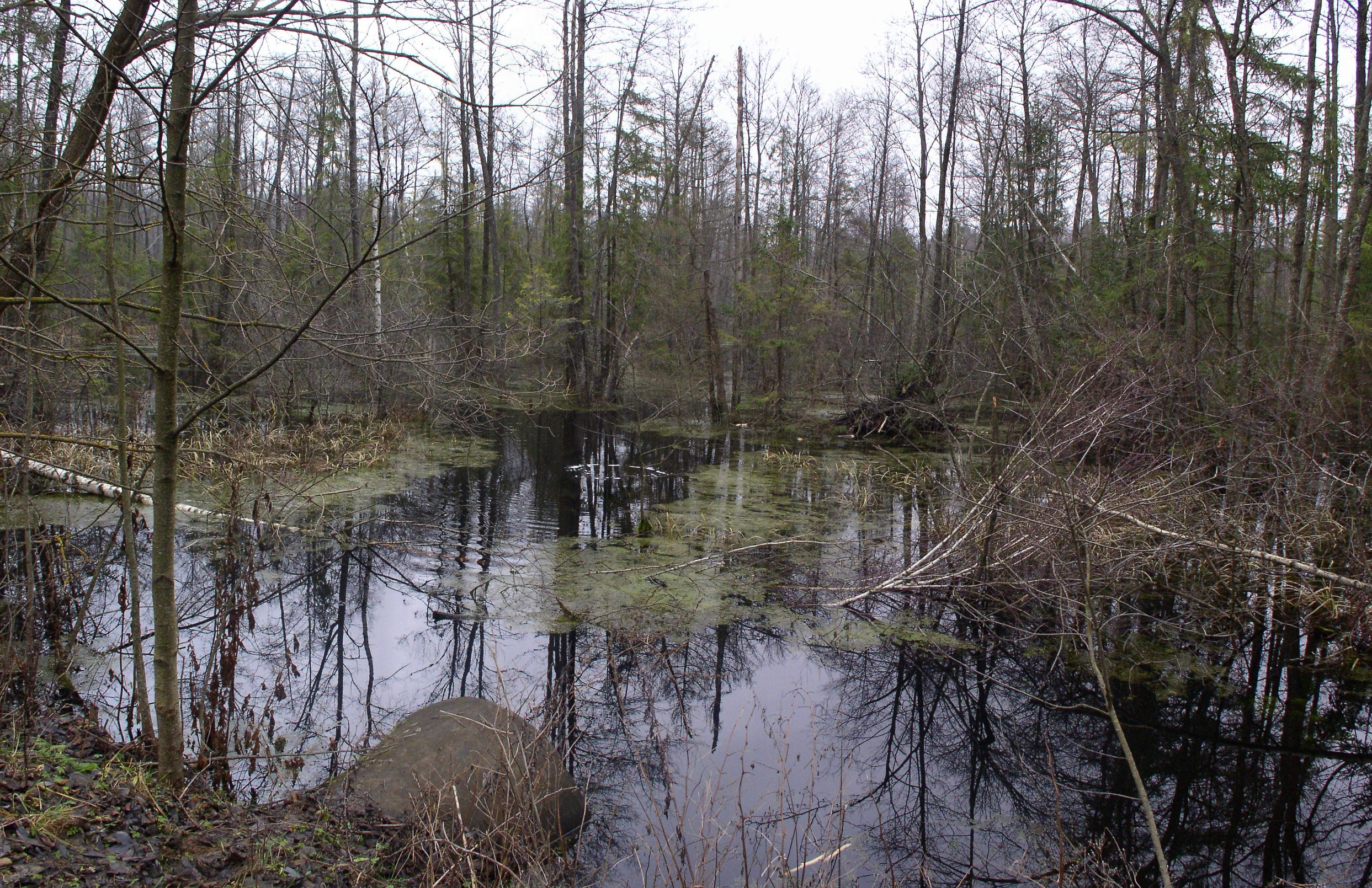 Swamp at peat mining near Rudzensk, Belarus.